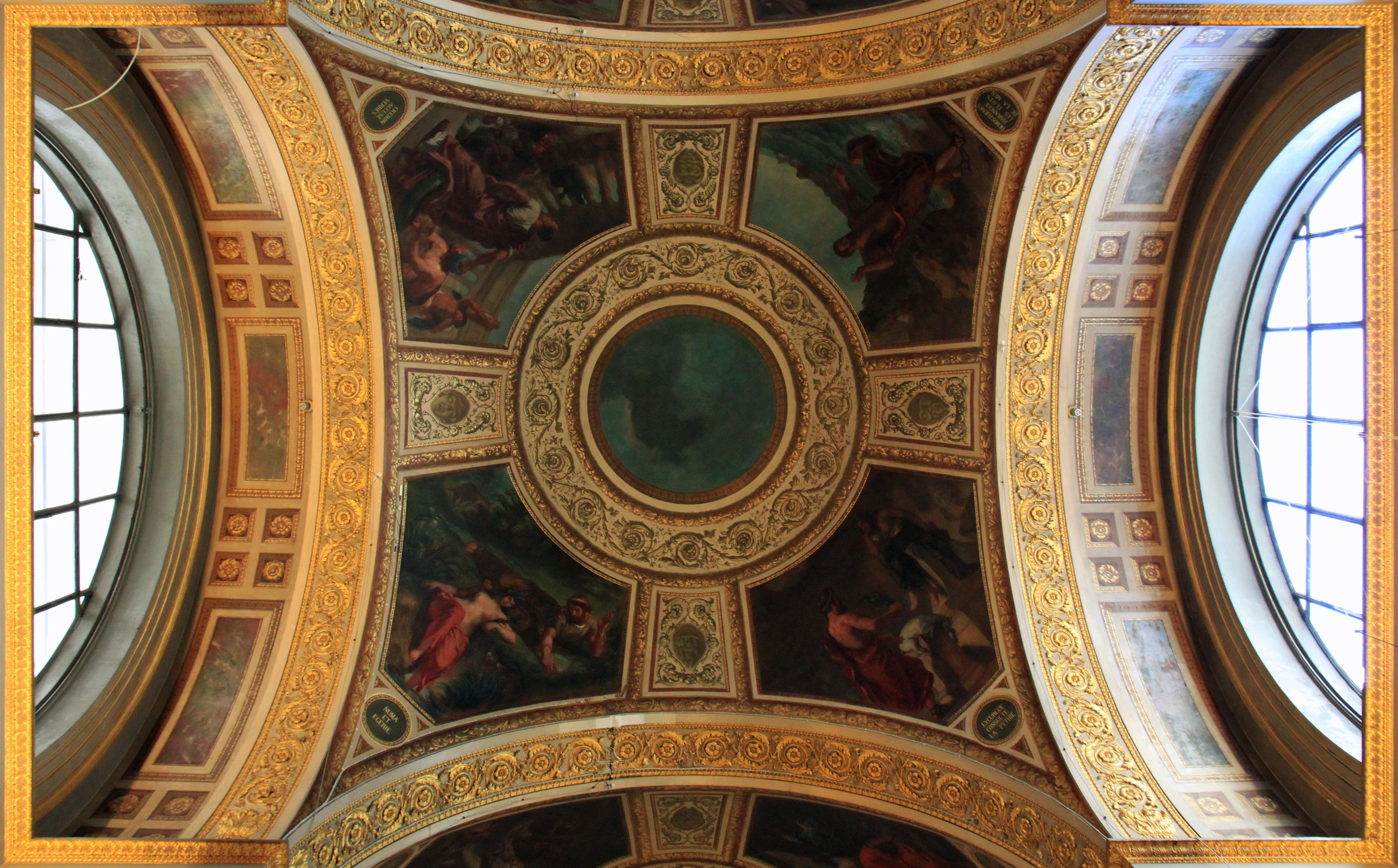 Central cupola of the National Assembly library, located in the Palais Bourbon, Paris. Paintings were done by Eugène Delacroix (1798-1863), between 1838 and 1847. This cupola depicts Legislation and Eloquence.